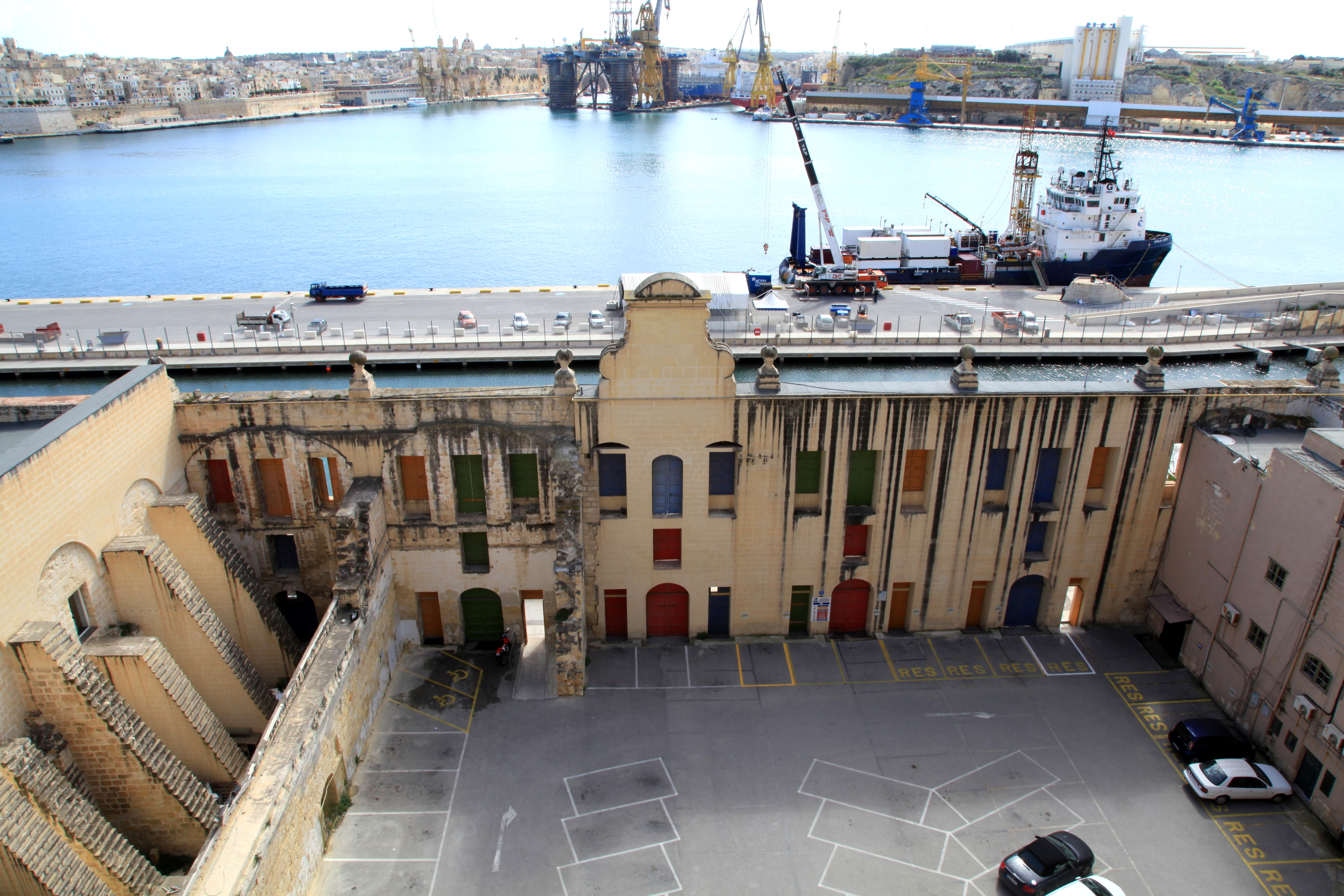 View from the Sir Luigi Preziosi Gardens to the Valletta Waterfront in Floriana, Malta